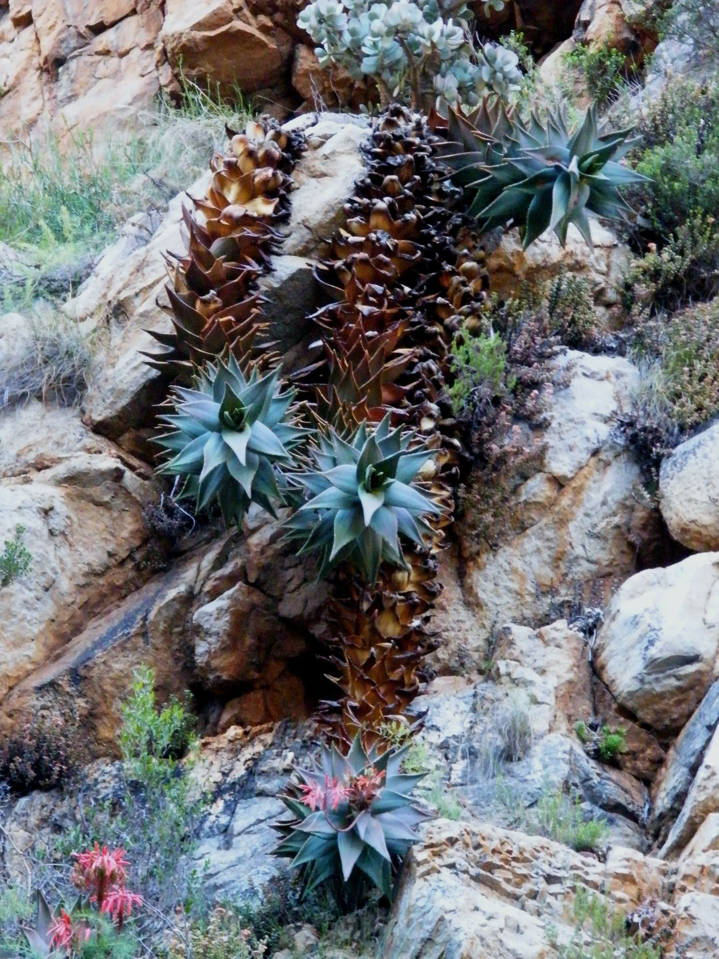 Kraans aloe